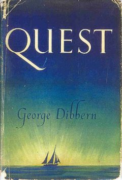 Book cover Quest